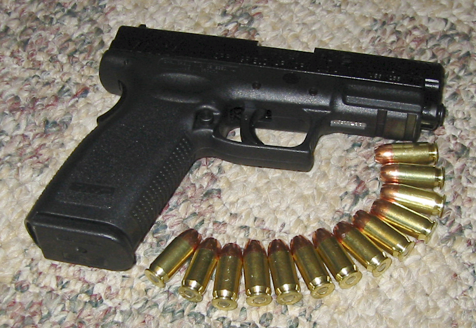 Picture of a 2006 Springfield Armory XD Service Model Pistol chambered for .45 ACP with 4" barrel, alongside the 13 rounds that fit inside it.